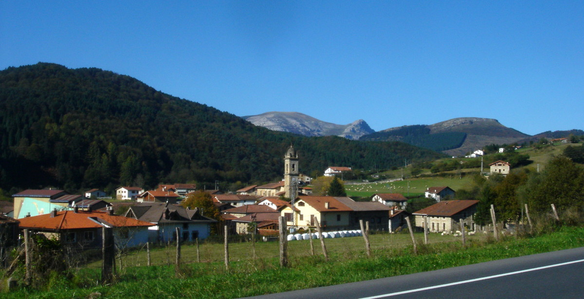 Ubide (Biscay, Basque Country, Spain)